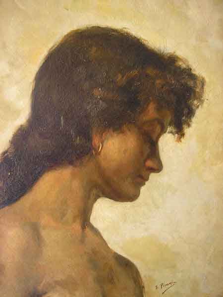 Napolitana